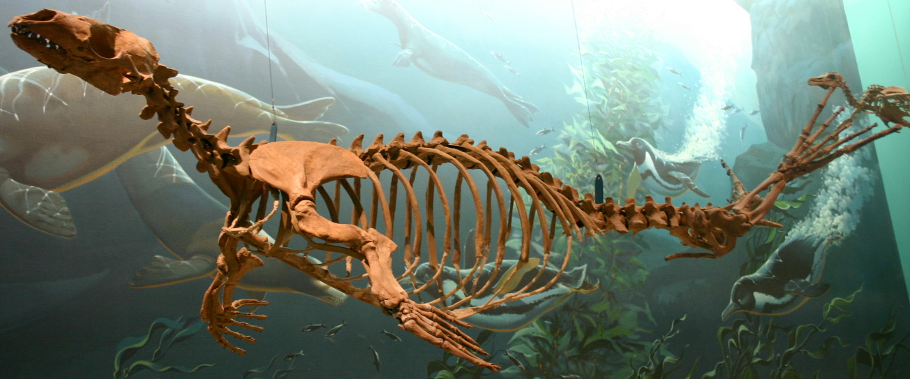 Acrophoca longirostris, Smithsonian National Museum of Natural History.